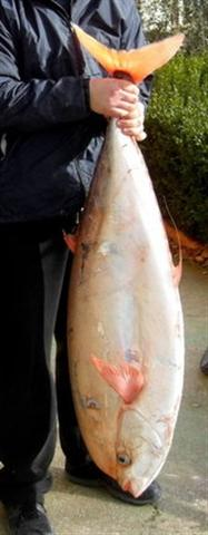 Luvarus imperialis catched in Biograd na Moru, Croatia.